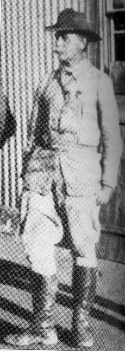 Colonel Villebois-Mareuil a few days before his death at Boshof, the 5th April 1900. (War Museum, Bloemfontein.)